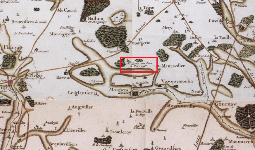 Cassini map centered on "St-Martin-aux-Bois de Rurecourt" (or Ruricourt), in the departement Oise. The origin of the village is an abbey founded in 12th cent. in the diocese of Beauvais. The abbey lasted until 17th century or later, and gave its name to the village.